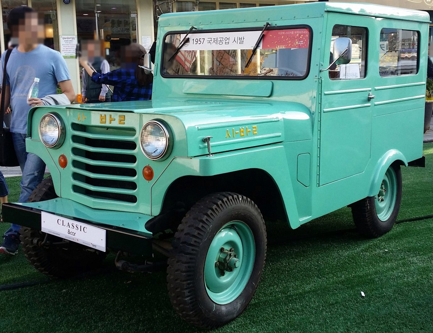 Gukje Shibal